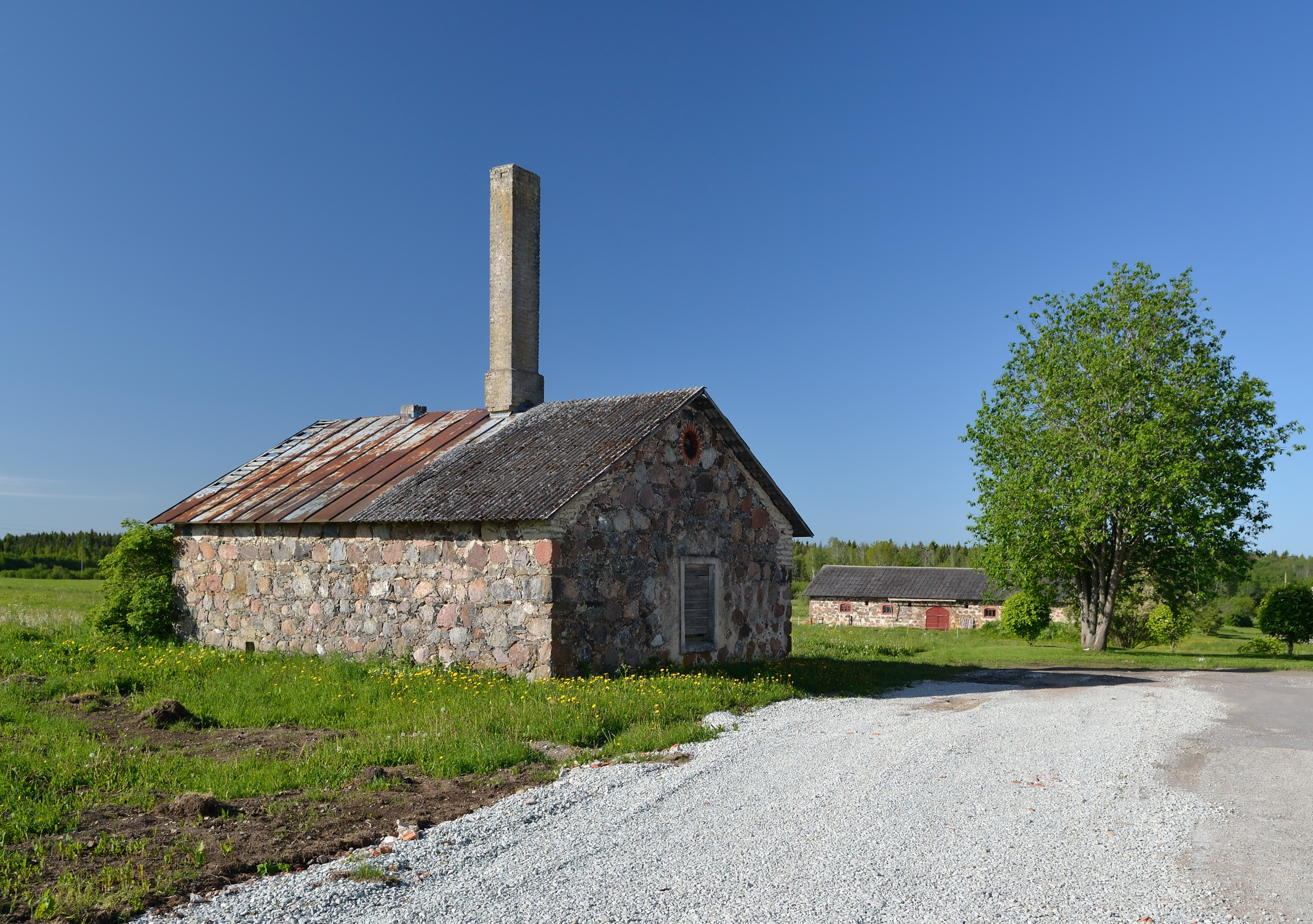 Imastu manor cereal dryer